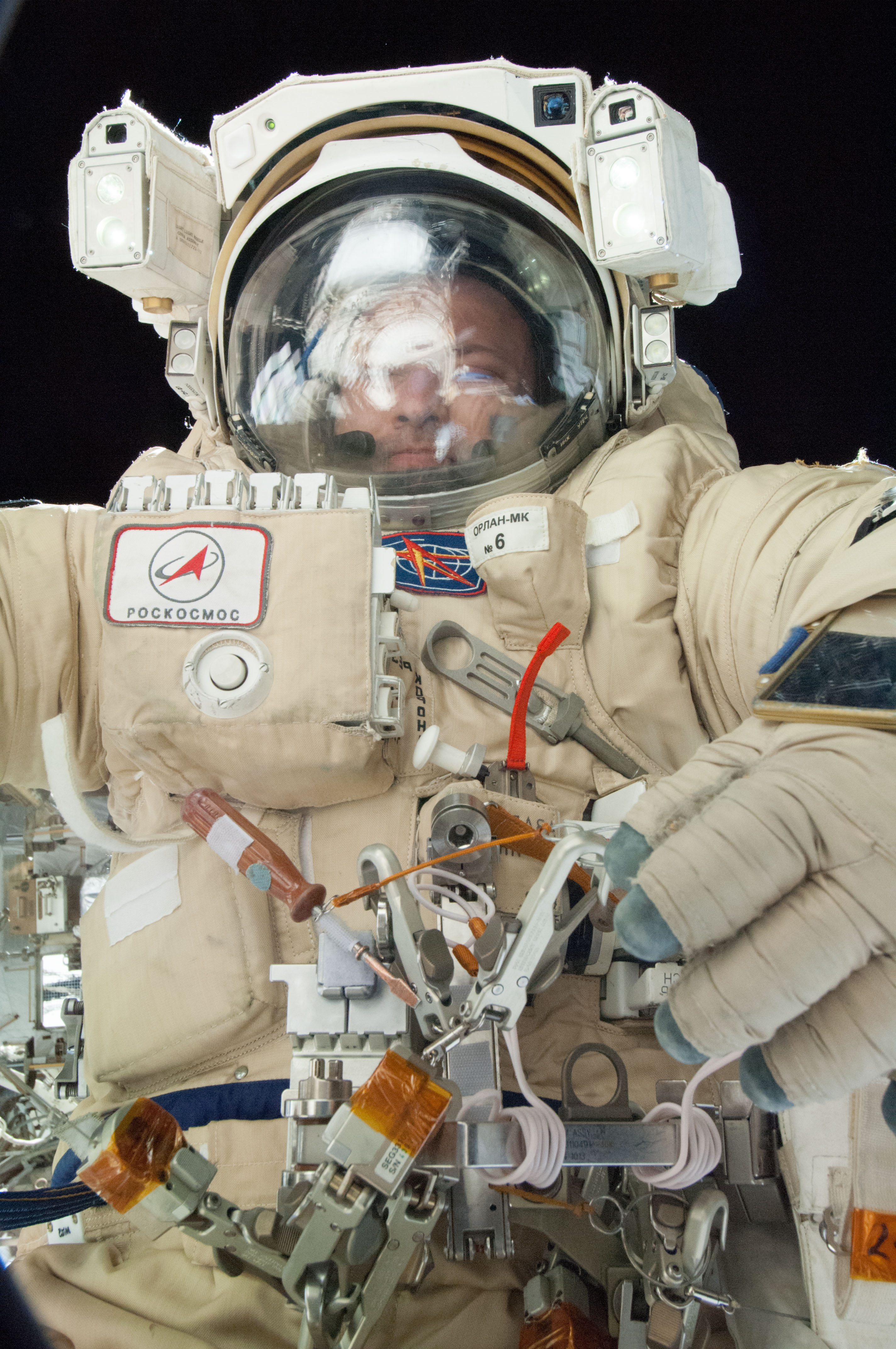 Russian cosmonaut Alexander Misurkin, Expedition 36 flight engineer, attired in a Russian Orlan spacesuit, participates in a session of extravehicular activity (EVA) to continue outfitting the International Space Station. During the five-hour, 58-minute spacewalk, Misurkin and Russian cosmonaut Fyodor Yurchikhin (out of frame) completed the replacement of a laser communications experiment with a new platform for a small optical camera system, the installation of new spacewalk aids and an inspection of antenna covers.